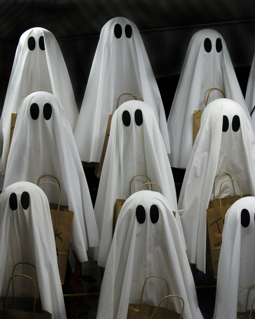 It's that time of year once again, Halloween ushers in the best holiday of the Holiday season! Taken at La Mesa Oktoberfest in 2007 but still relevant every Halloween.